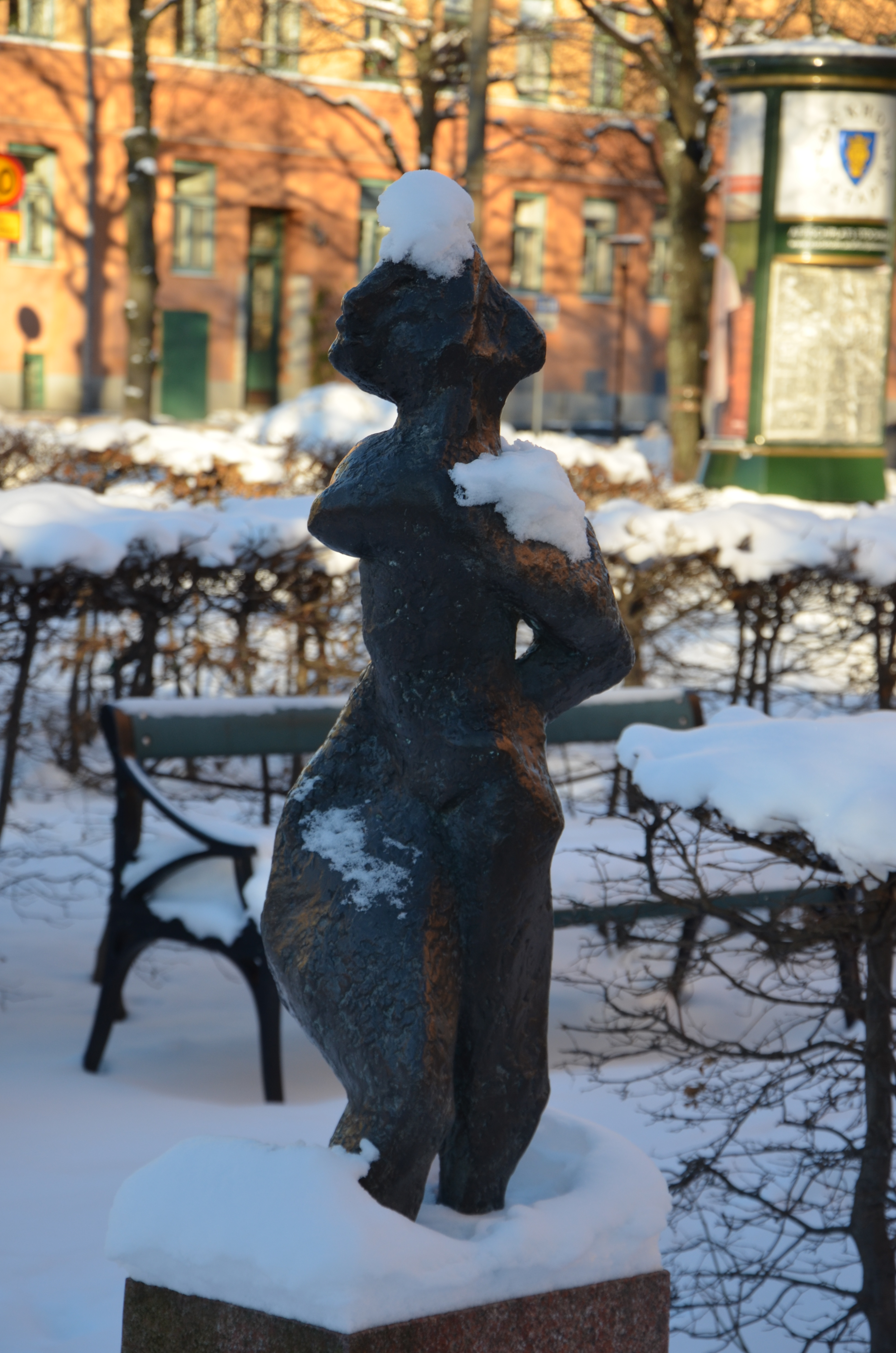 Sophie by Åsa Knoge-Hellström, Katarina Bangata, Stockholm, bronze, 1944